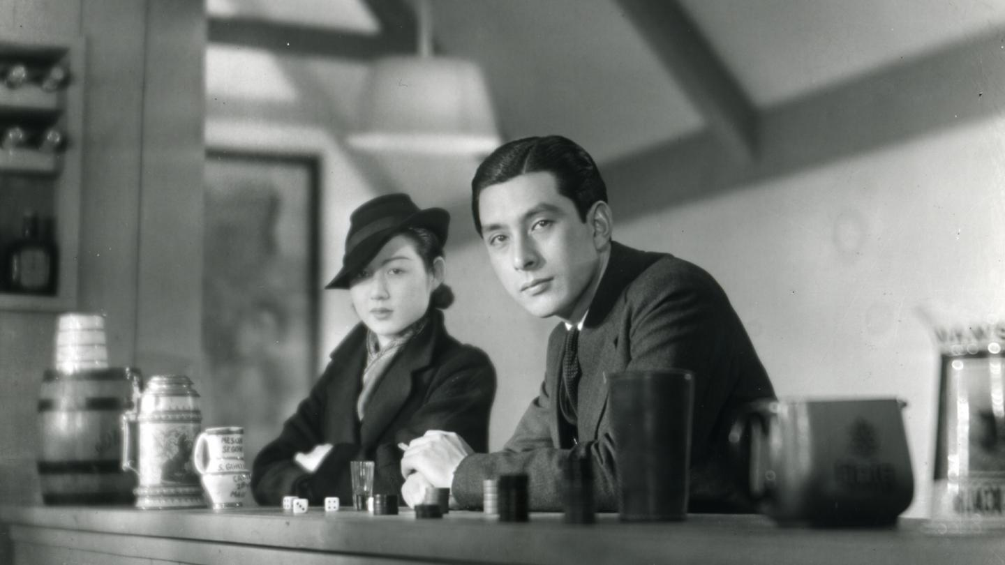 Michiko Kuwano and Shūji Sano in Shukujo wa nani o wasureta ka (淑女は何を忘れたか) directed by Yasujirō Ozu - 1937